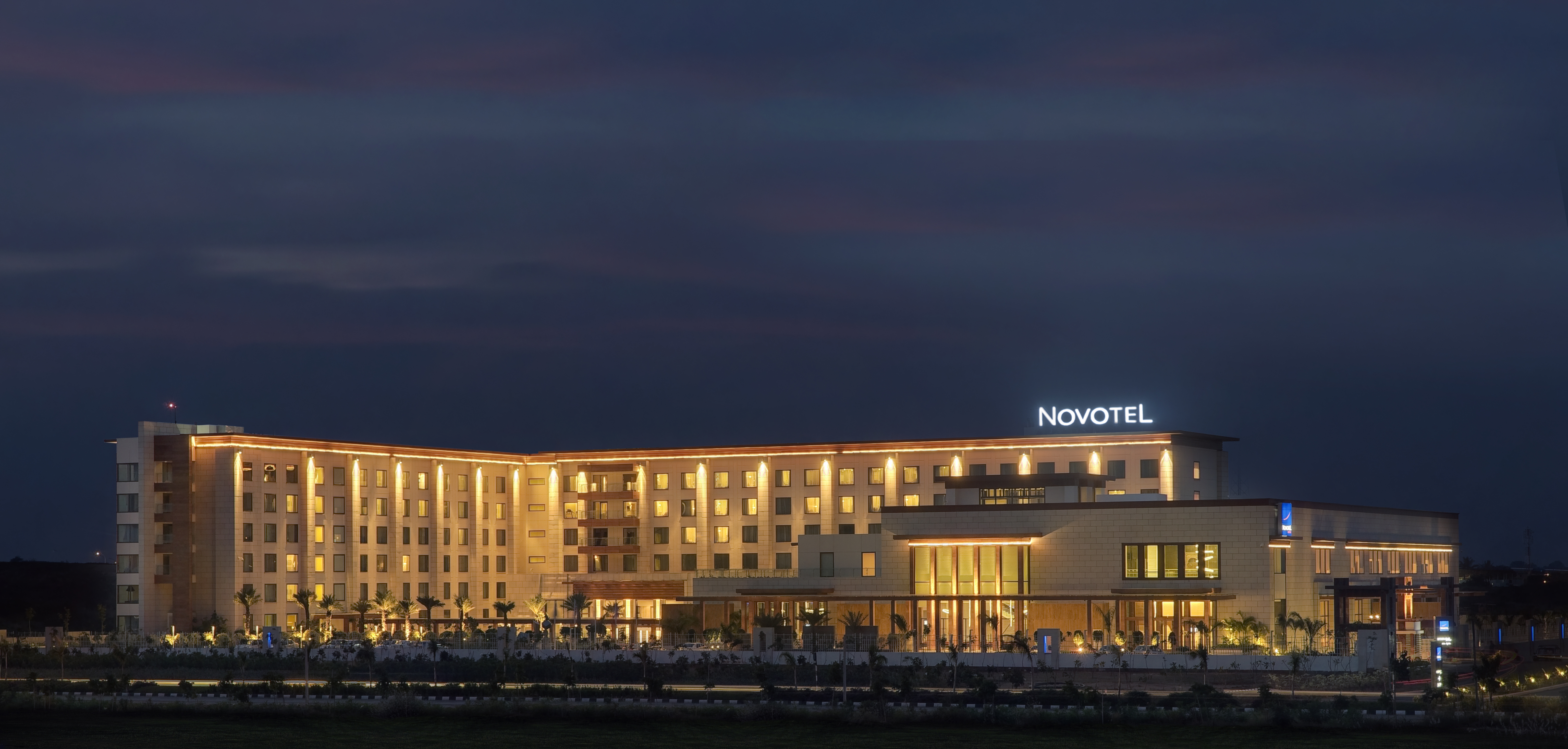 Welcome to Novotel Hyderabad Airport, Shamshabad, India. Just 5 minutes from the airport, Novotel Hyderabad Airport is the perfect destination for business and leisure.